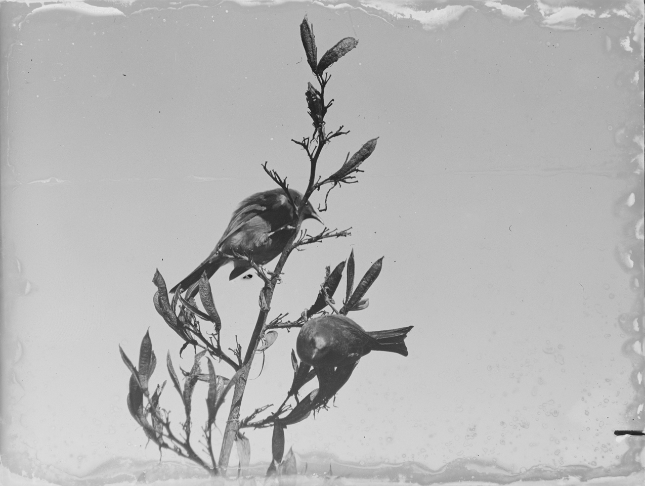 Two birds perched on a tree.